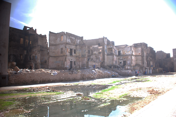 [Anouar Hamama] Only two Moroccan Jews remain in Mellah, the ruined Jewish quarter of Essaouira. Full story